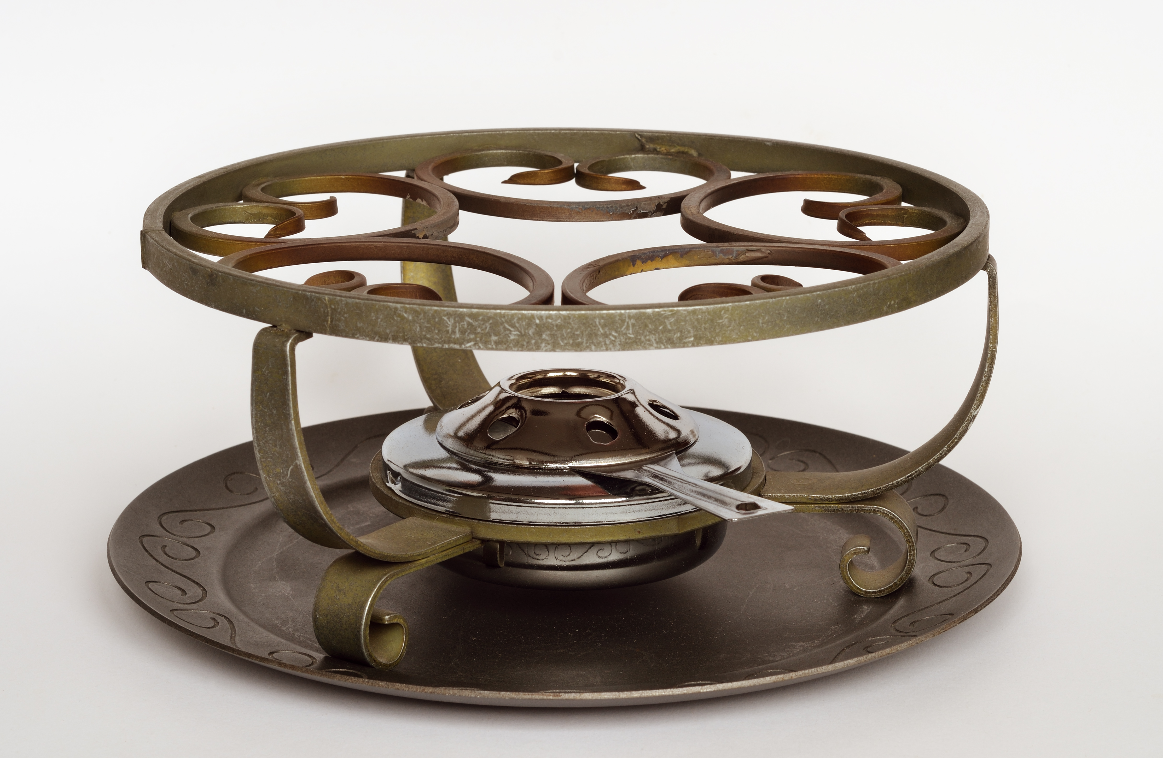 a portable stove